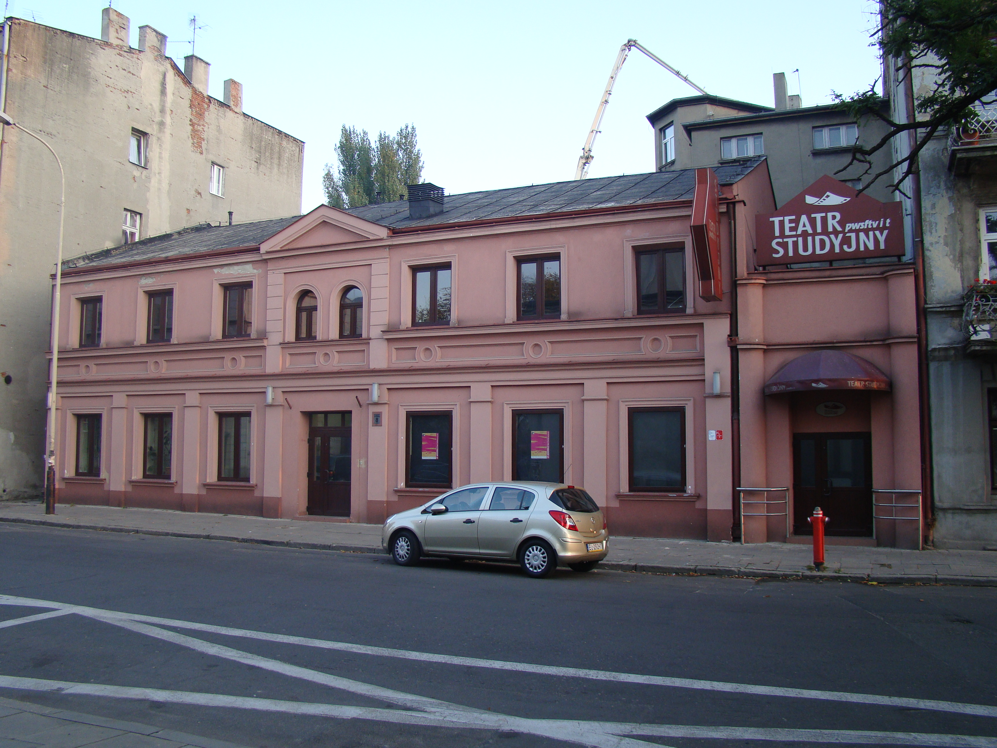 Studyjny Theater in Łódź